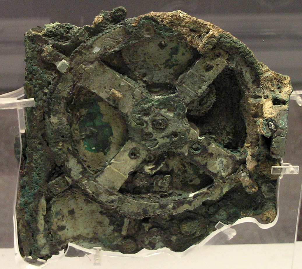 Main Antikythera mechanism fragment (fragment A). The mechanism consists of a complex system of 30 wheels and plates with inscriptions relating to signs of the zodiac, months, eclipses and pan-Hellenic games. The study of the fragments suggests that this was a kind of astrolabe. The interpretation now generally accepted dates back to studies by Professor Derek de Solla Price, who was the first to suggest that the mechanism is a machine to calculate the solar and lunar calendar, that is to say, an ingenious machine to determine the time based on the movements of the sun and moon, their relationship (eclipses) and the movements of other stars and planets known at that time. Later research by the Antikythera Mechanism Research Project and scholar Michael Wright has added to and improved upon Price's work. The mechanism was probably built by a mechanical engineer of the school of Posidonius in Rhodes. Cicero, who visited the island in 79/78 B.C. reported that such devices were indeed designed by the Stoic philosopher Posidonius of Apamea. The design of the Antikythera mechanism appears to follow the tradition of Archimedes' planetarium, and may be related to sundials. His modus operandi is based on the use of gears. The machine is dated around 89 B.C. and comes from the wreck found off the island of Antikythera. National Archaeological Museum, Athens, No. 15987.